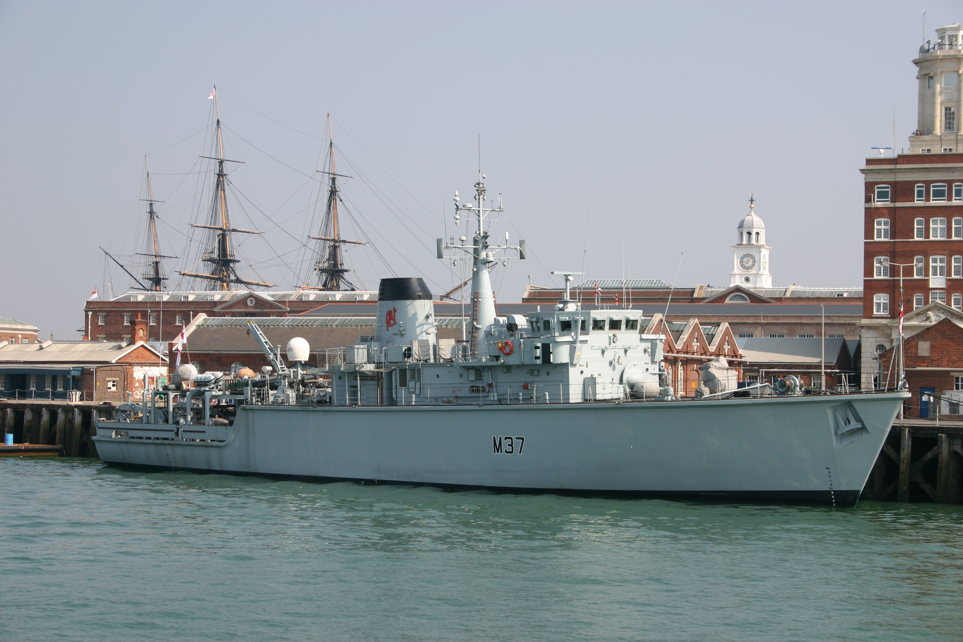 HMS Chiddingfold moored at Portsmouth naval dockyard.